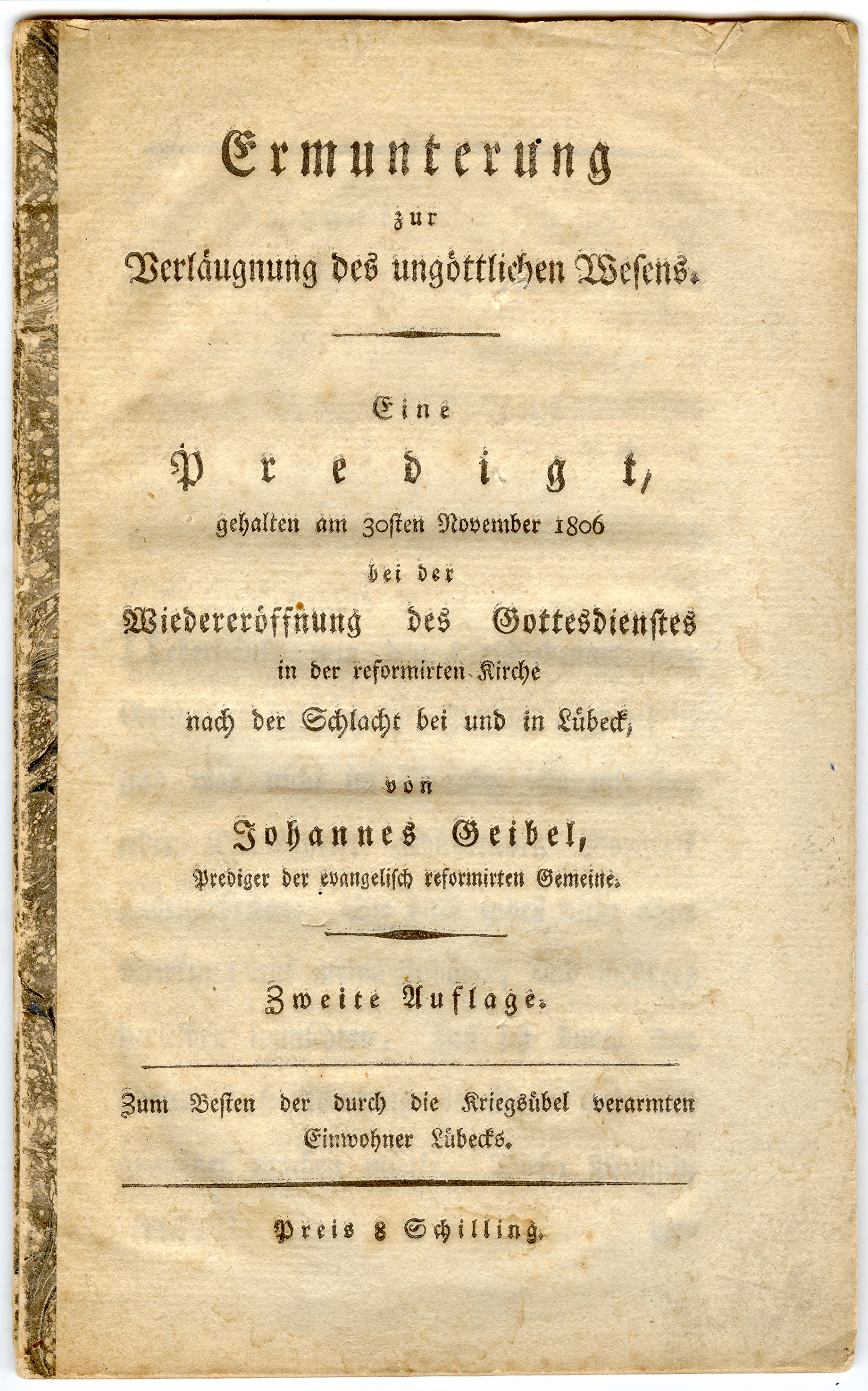 de: Dies ist ein Scan des historischen Buches: en: This is a scan of the historical document